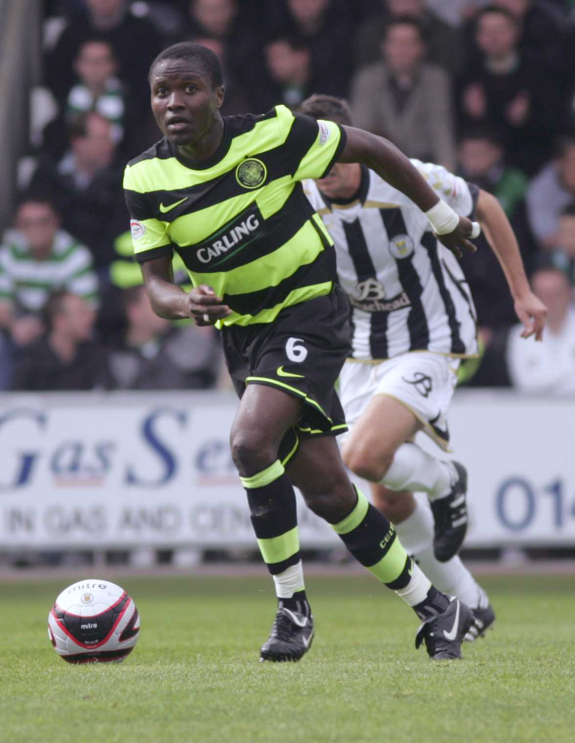 Landry N'Guemo playing for Celtic F.C. in a Scottish Premier League match against St. Mirren F.C.